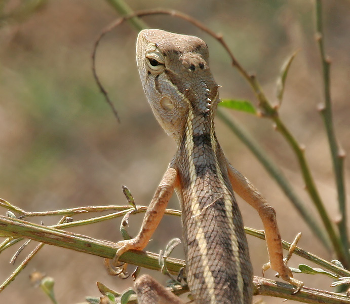 Oriental Garden Lizard Calotes versicolor in Krishna Wildlife Sanctuary, Andhra Pradesh, India.